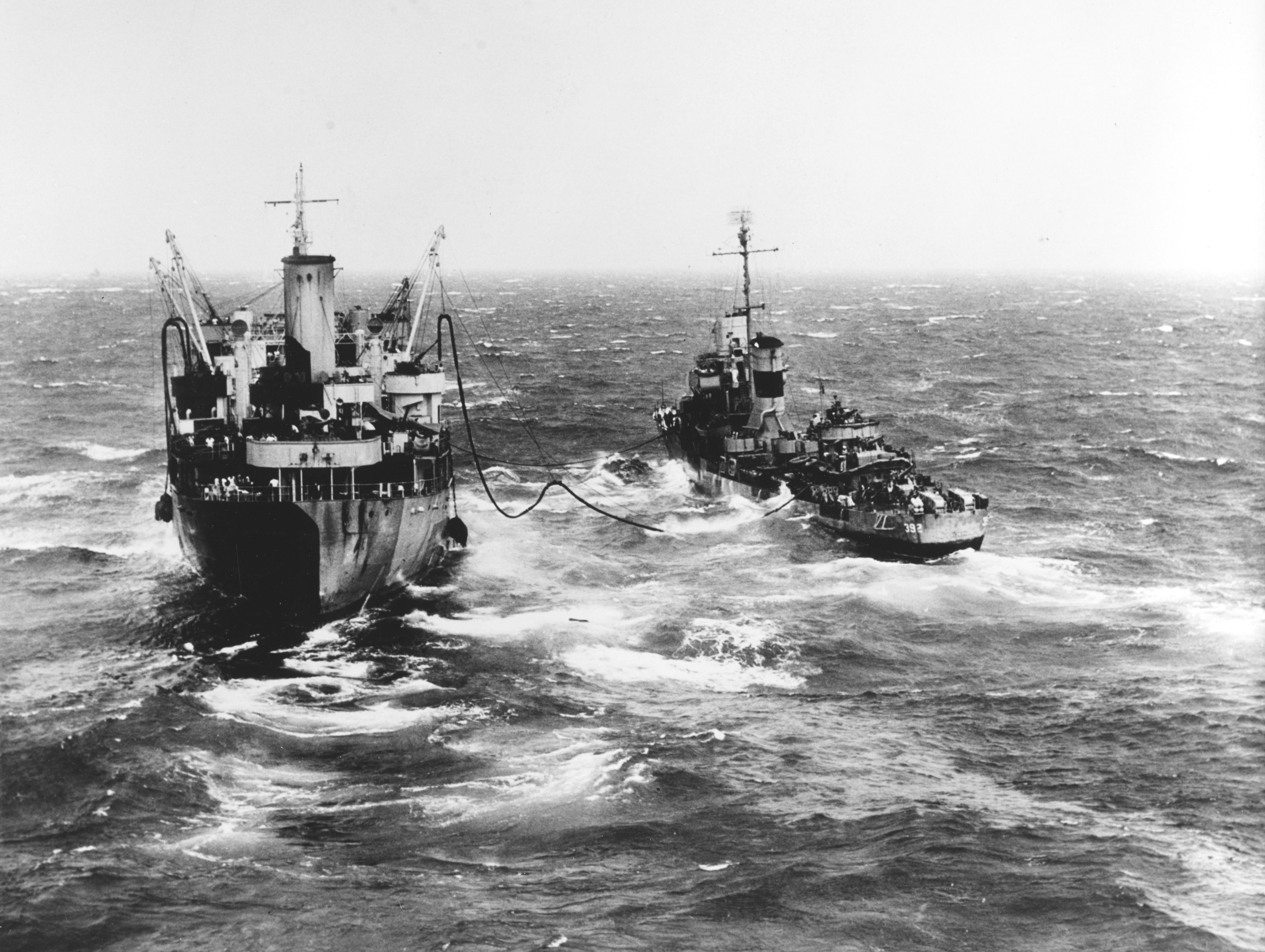 The U.S. Navy destroyer USS Patterson (DD-392) refueling at sea from the fleet oiler USS Guadalupe (AO-32), while taking part in the Lingayen operation, 12 January 1945.